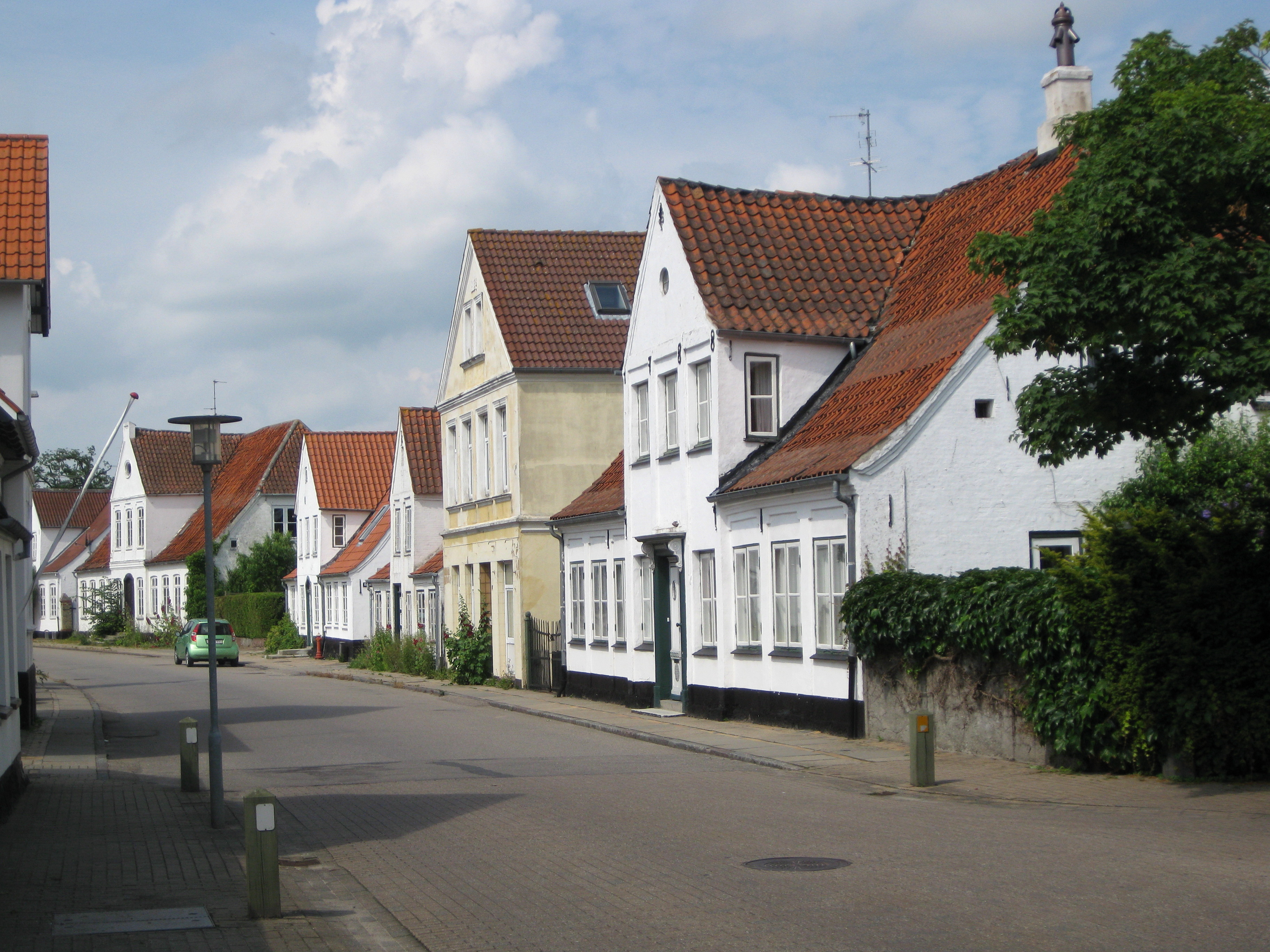 Old houses in the street "Storegade" in the small town "Augustenborg". The town is located at the island "Als" nearby Southern Jutland in south Denmark.